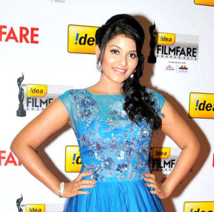 Anjali at the 60th Filmfare Awards South, 2013